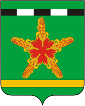 Otrado-Kubanskoe (Krasnodar krai), coat of arms